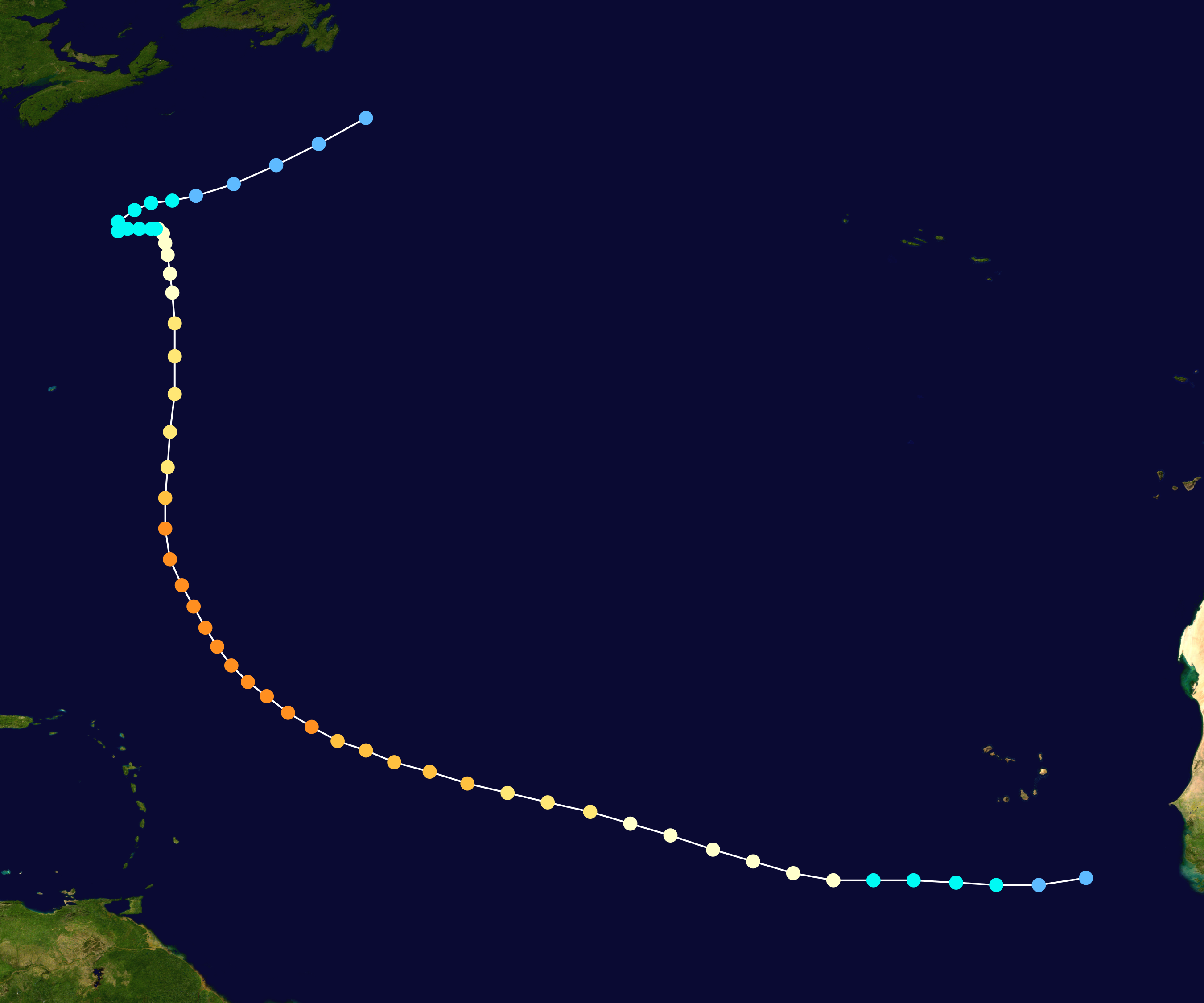 Hurricane Gabrielle (1989) track. Uses the color scheme from the Saffir-Simpson Hurricane Scale.